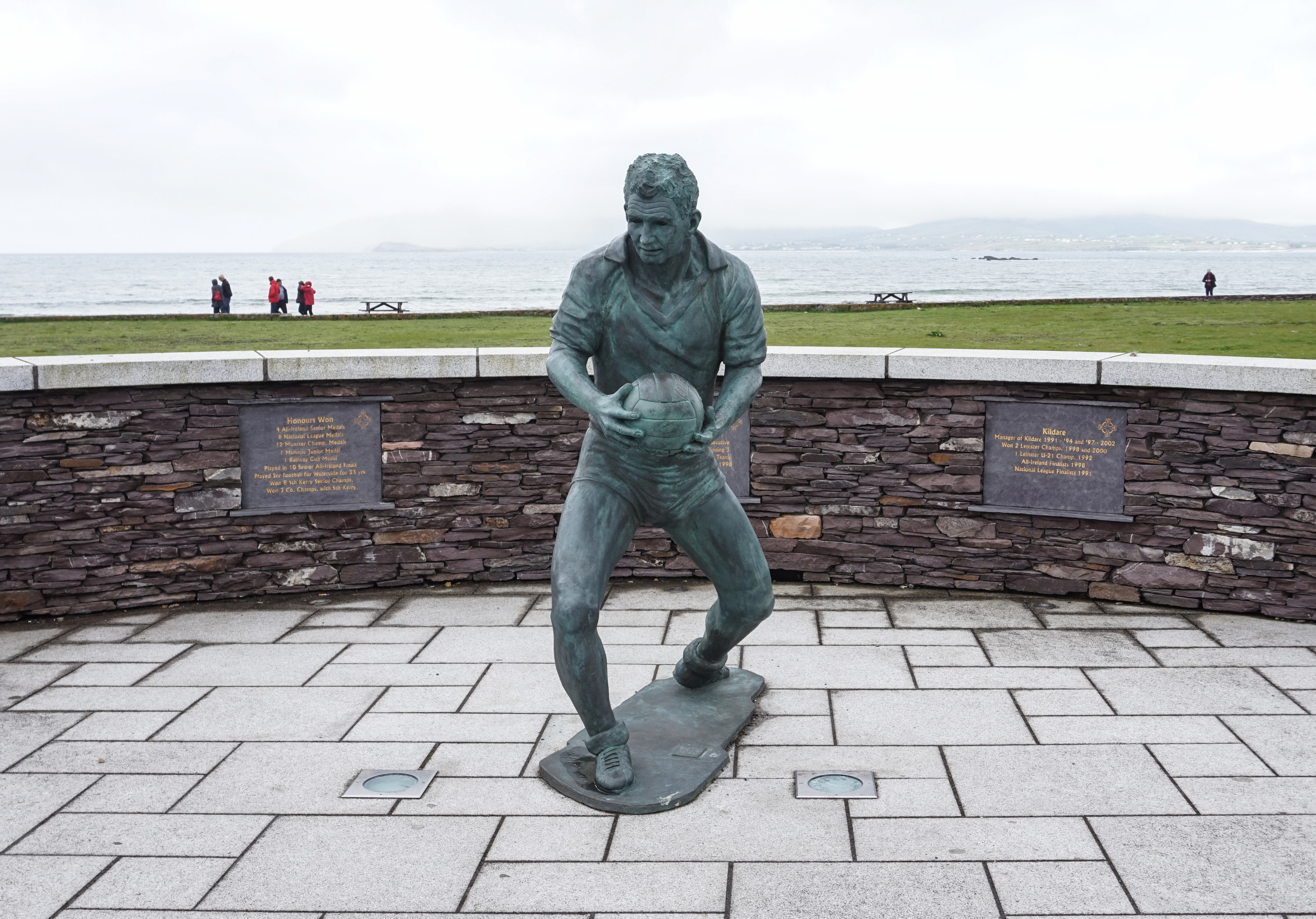 Statue of Mick O'Dwyer in Waterville, County Kerry, Ireland